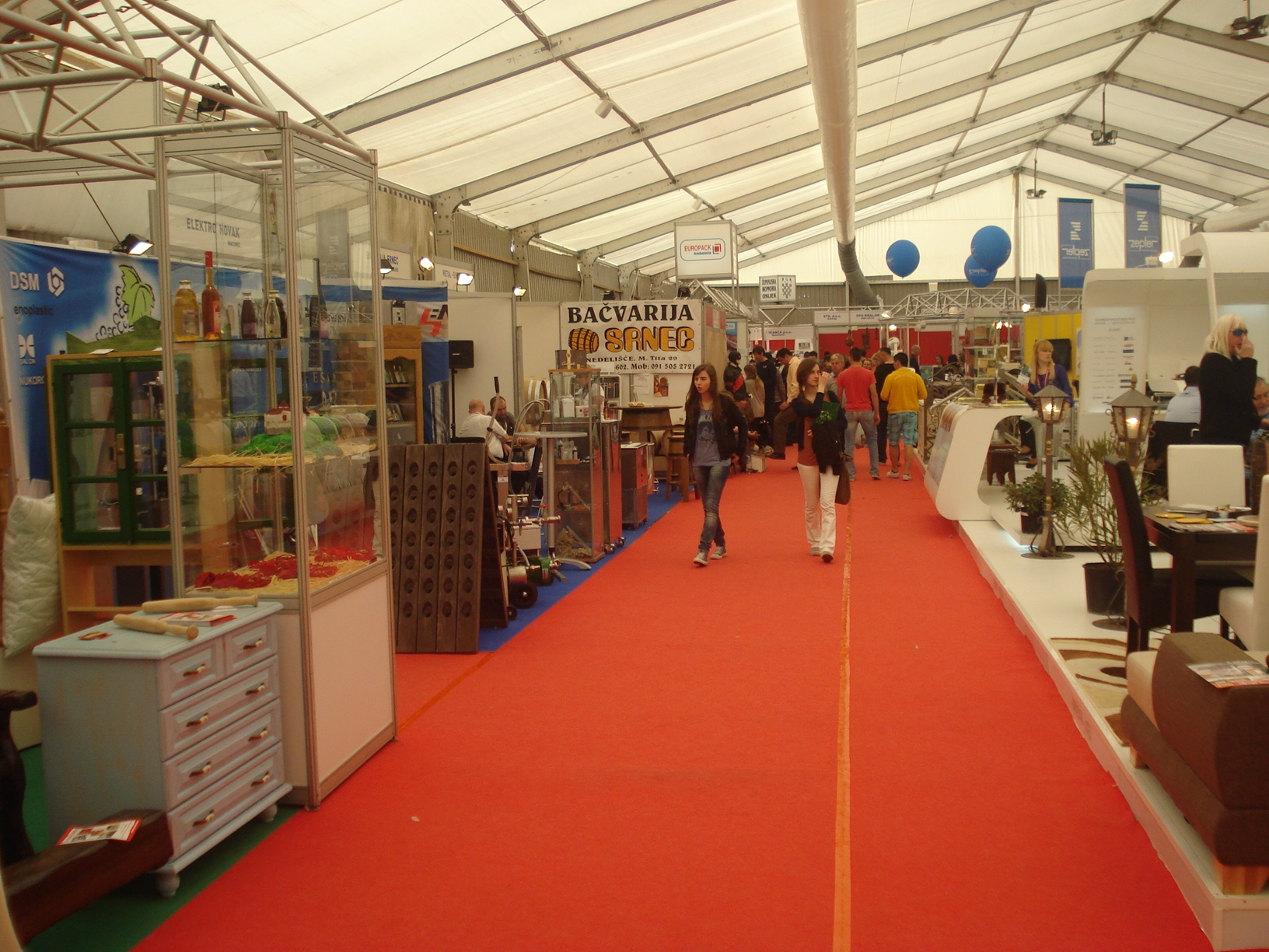 GAST 2012. International Trade Fair in Split, Split-Dalmatia County, Croatia – exhibition hall nr.1 (south side)